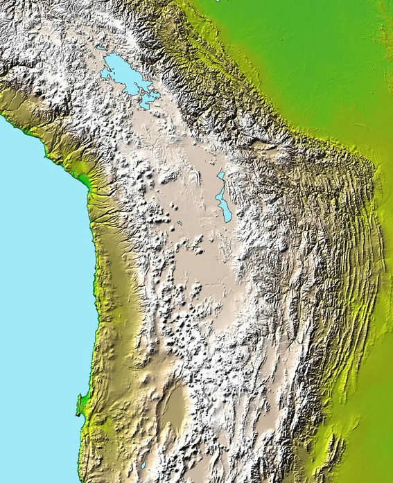 Satellite view of Andes, cropped